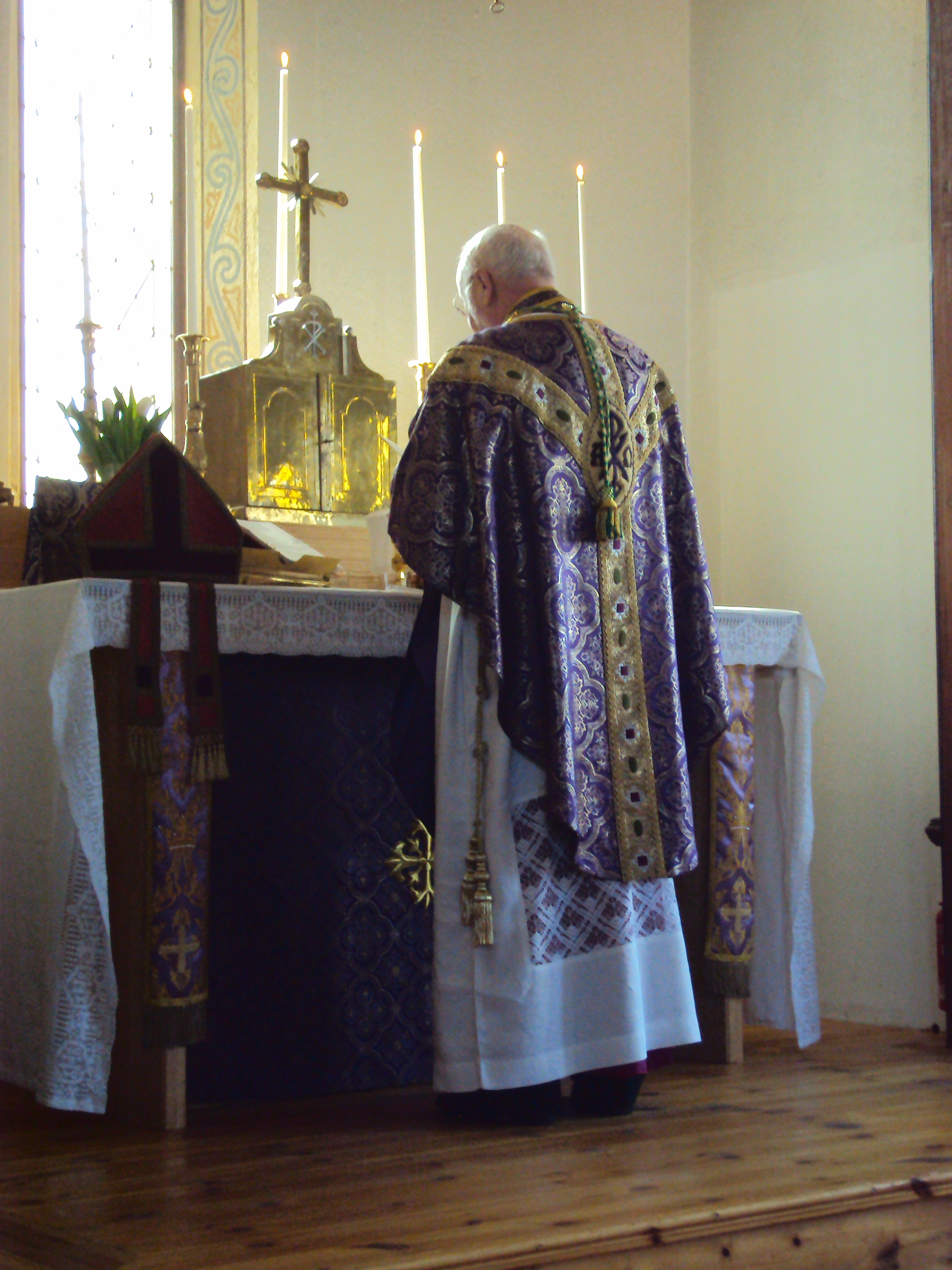 Mass in the Liberal Catholic Church in Sweden